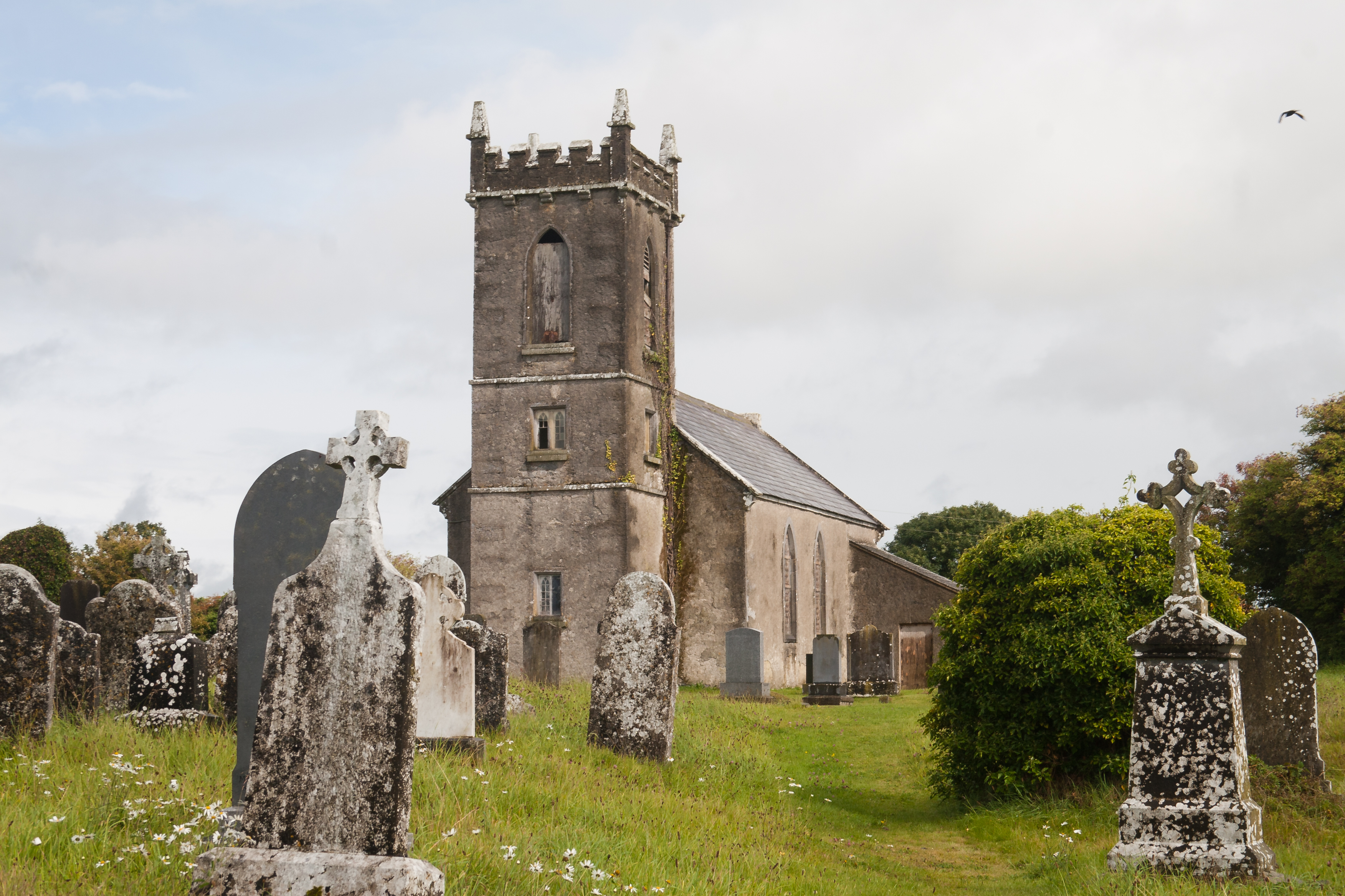 Feigh West, County Tipperary, Ireland Anglican church in Feigh West, close to Aglish. This church was erected in 1813 with funds of the Board of First Fruits close to the ruins of a medieval church. It is no longer used but registered in the Buildings of Ireland directory under regno 22400706.